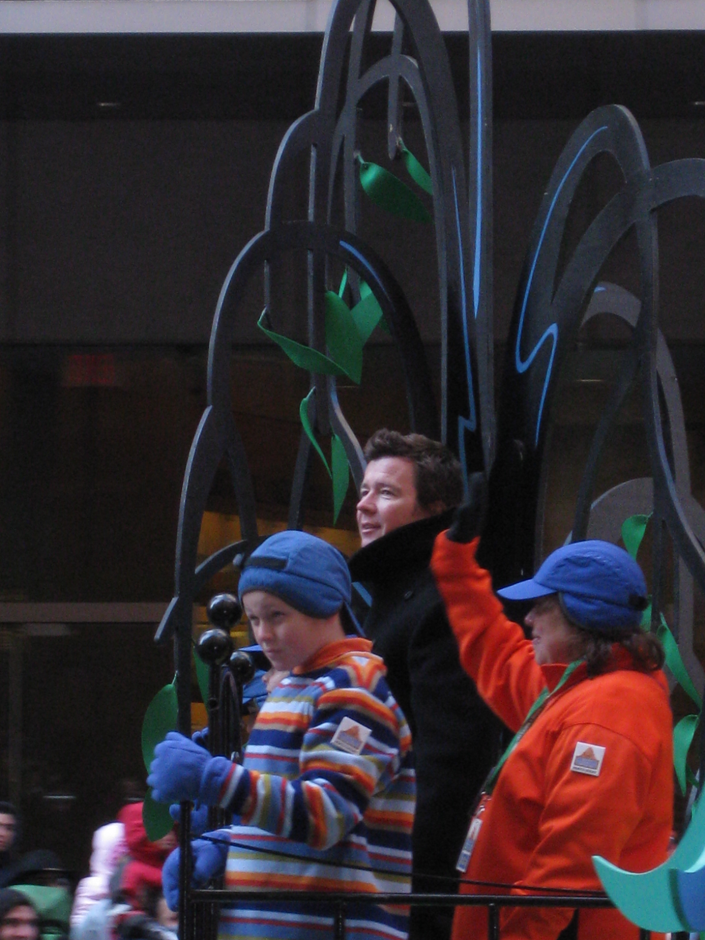 Rick Astley after rickrolling the Macy Thanksgiving Parade